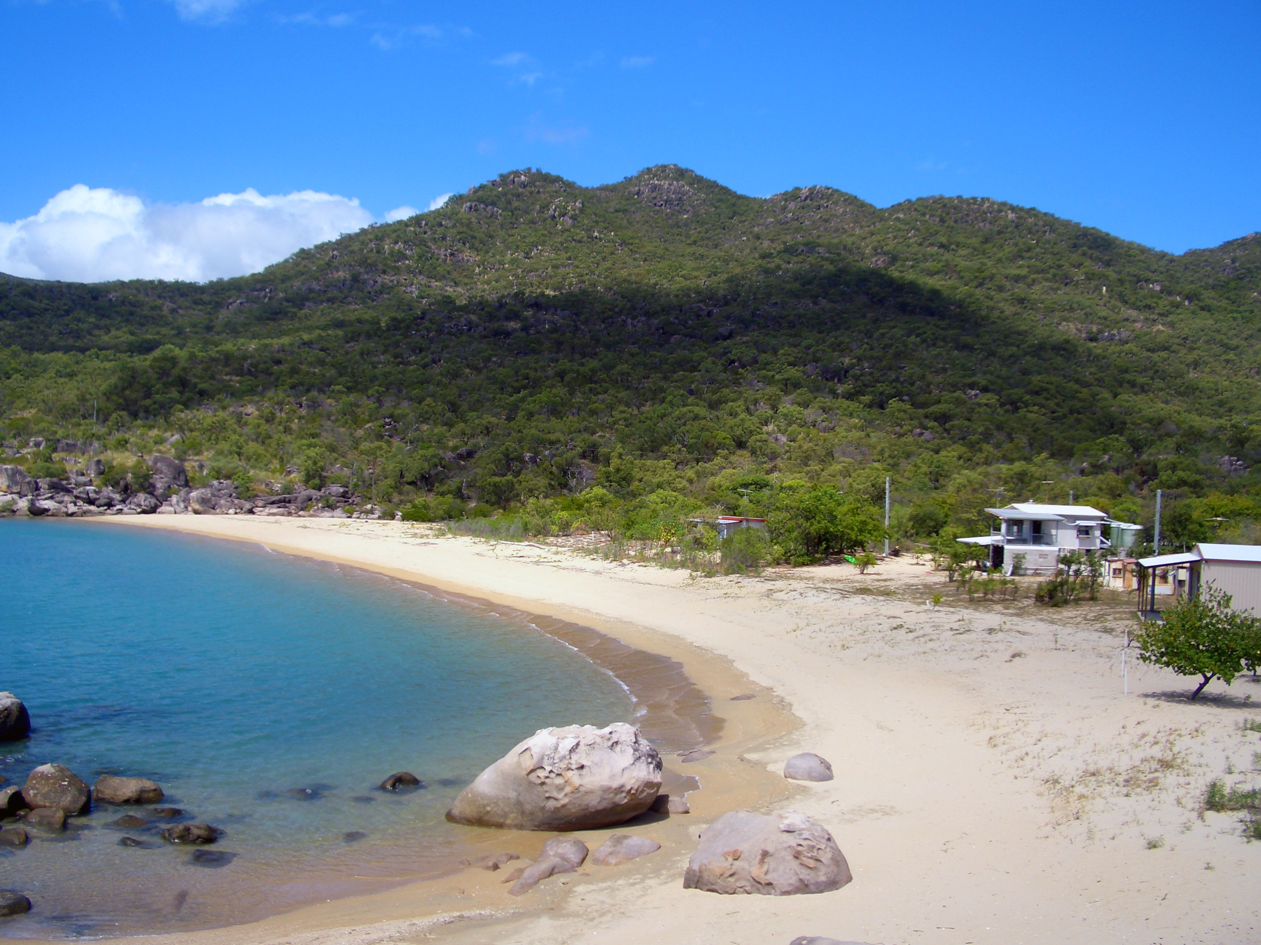 View of Cape Upstart National Park.